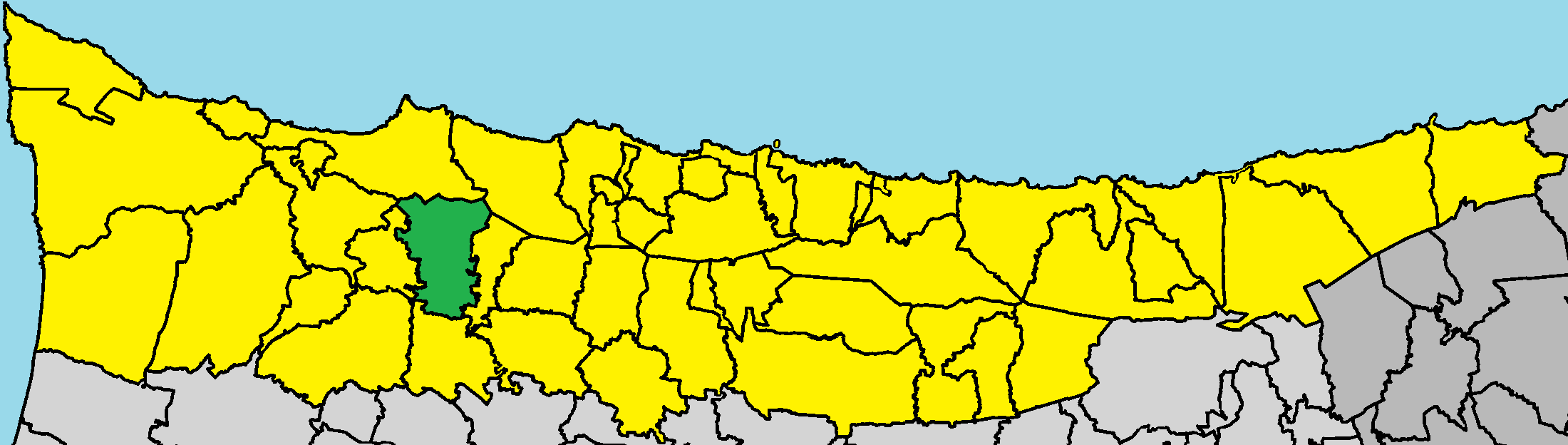 Larnakas Lapithou in Kyrenia District (de jure).